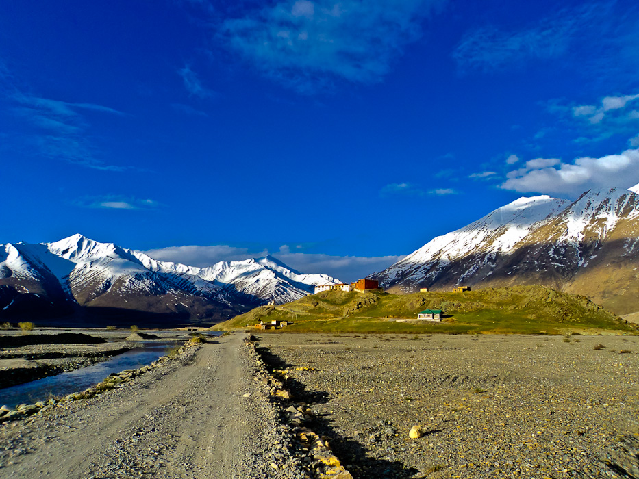 A morning photo of Rangdum Monastery in suru valley